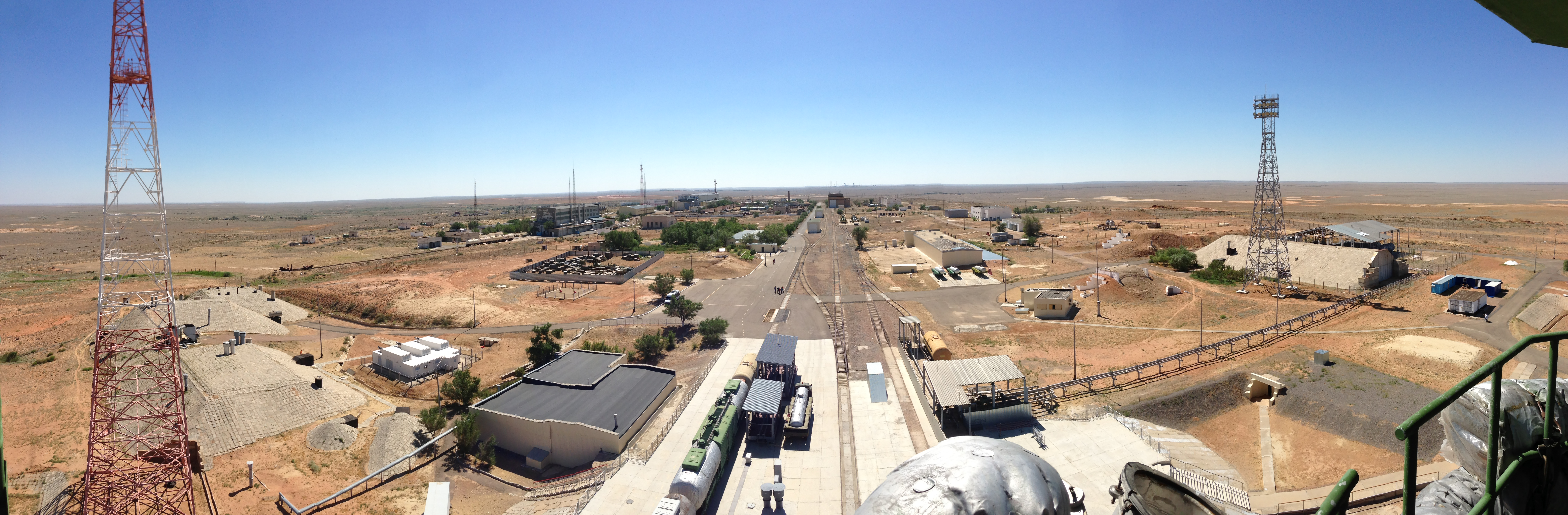 A view of Site 31/6 at the Baikonur Cosmodrome as seen from the top of the Soyuz support structure. A Zenit facility can be seen in the distance.